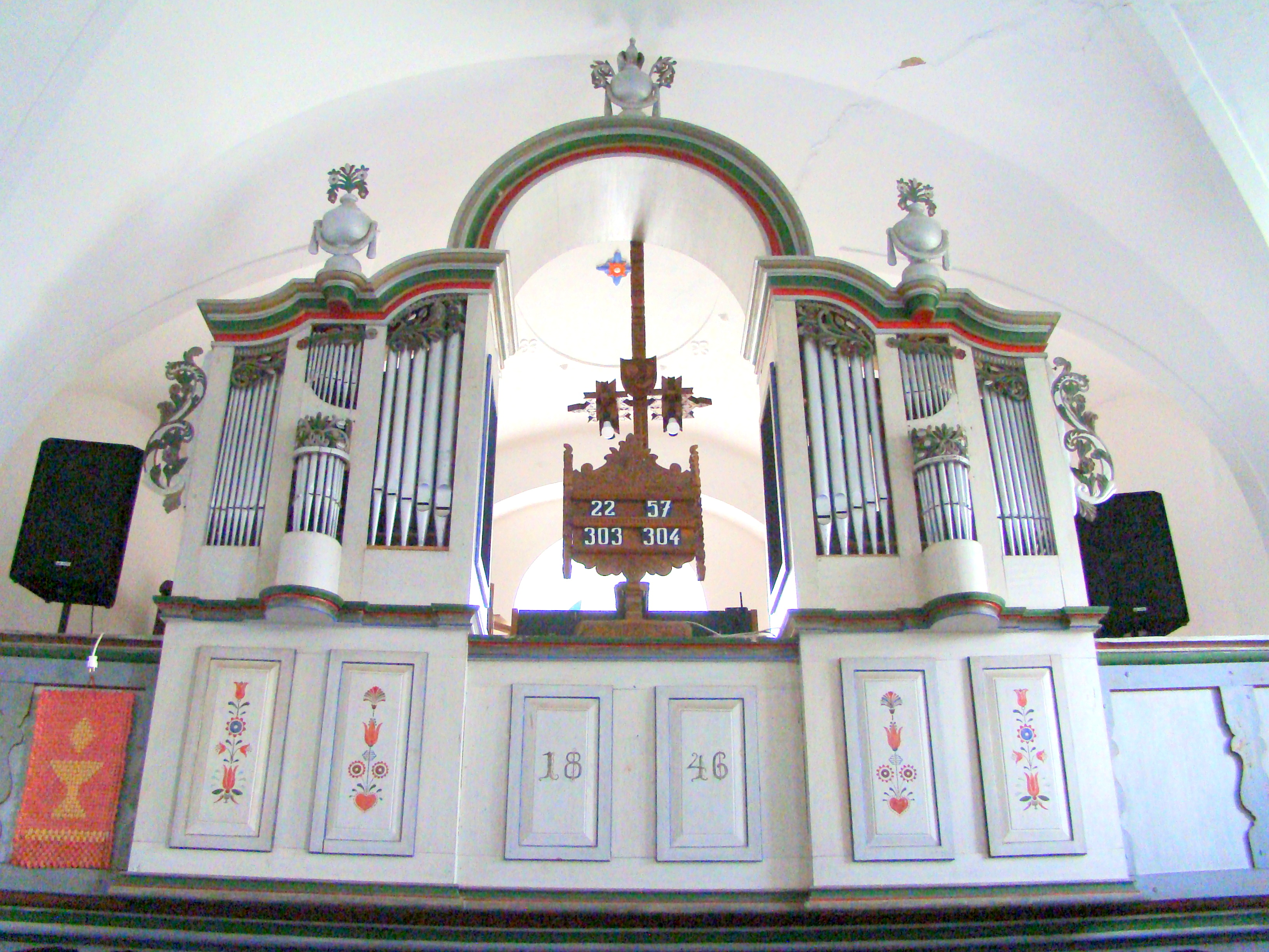 Unitarian church in Satu Nou, Harghita County, Romania